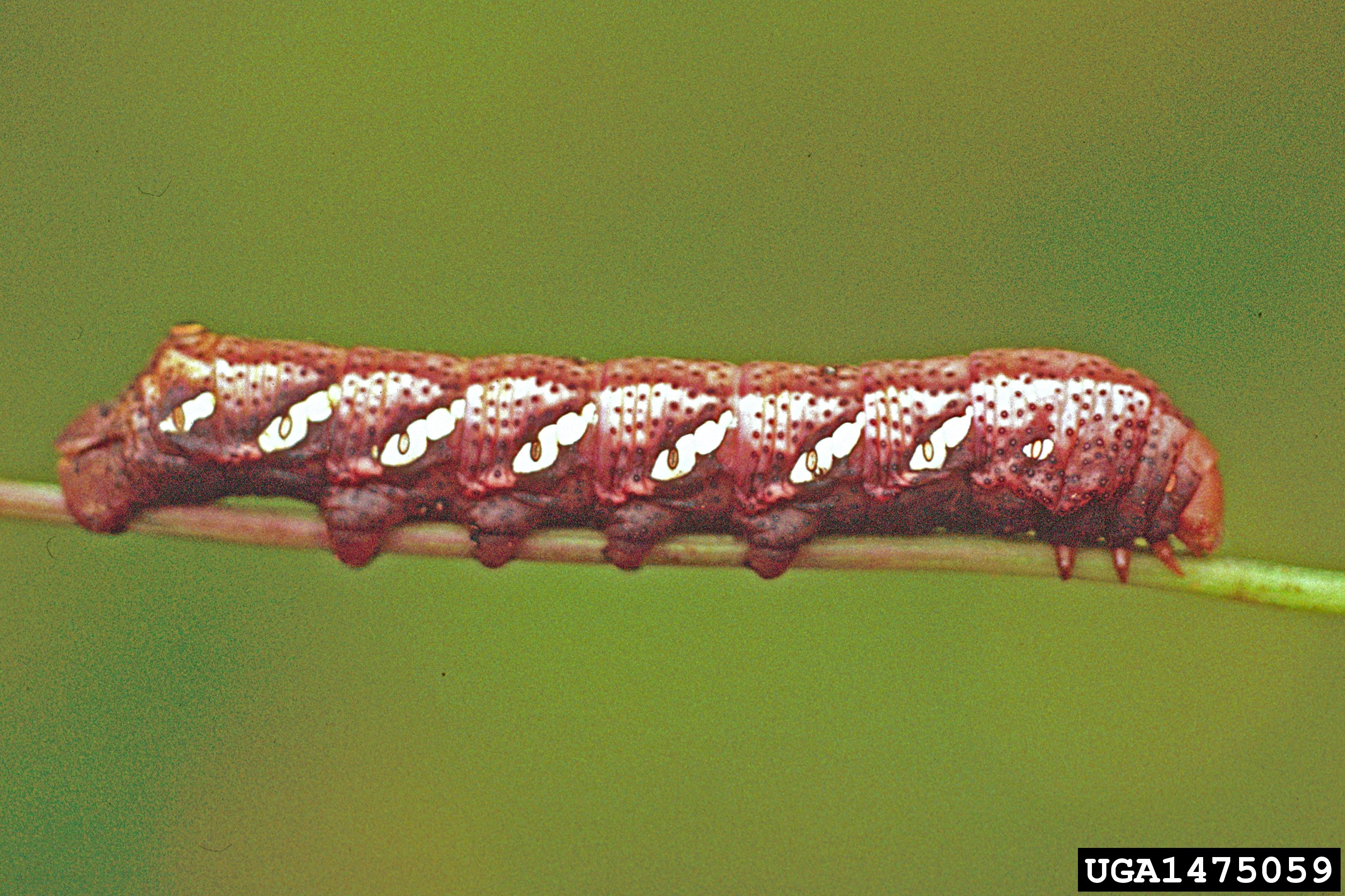 Eumorpha achemon, larva